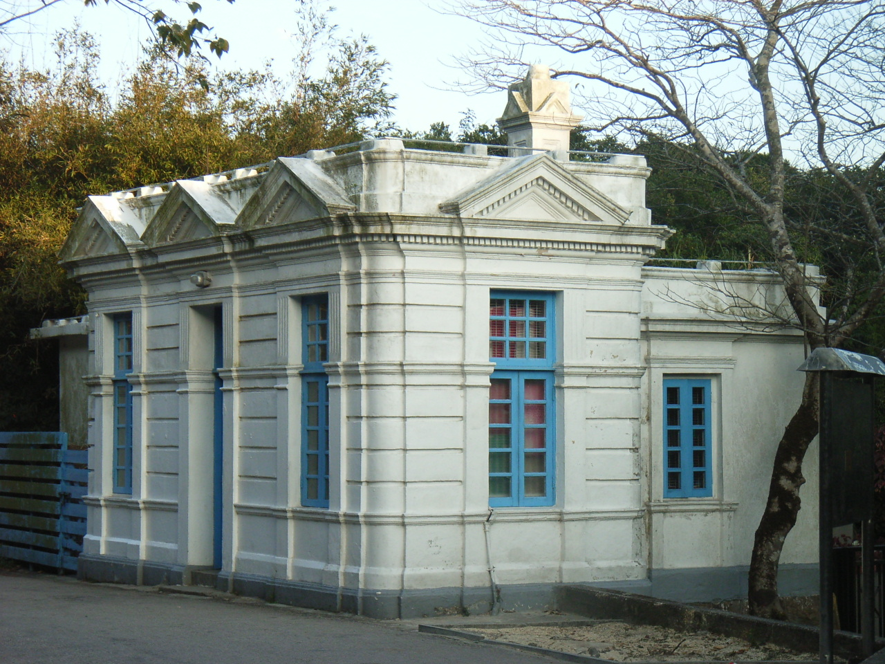 Victoria Peak Garden, Mount Austin Road, Victoria Peak, Hong Kong Photographer and author is ParkerStarS.